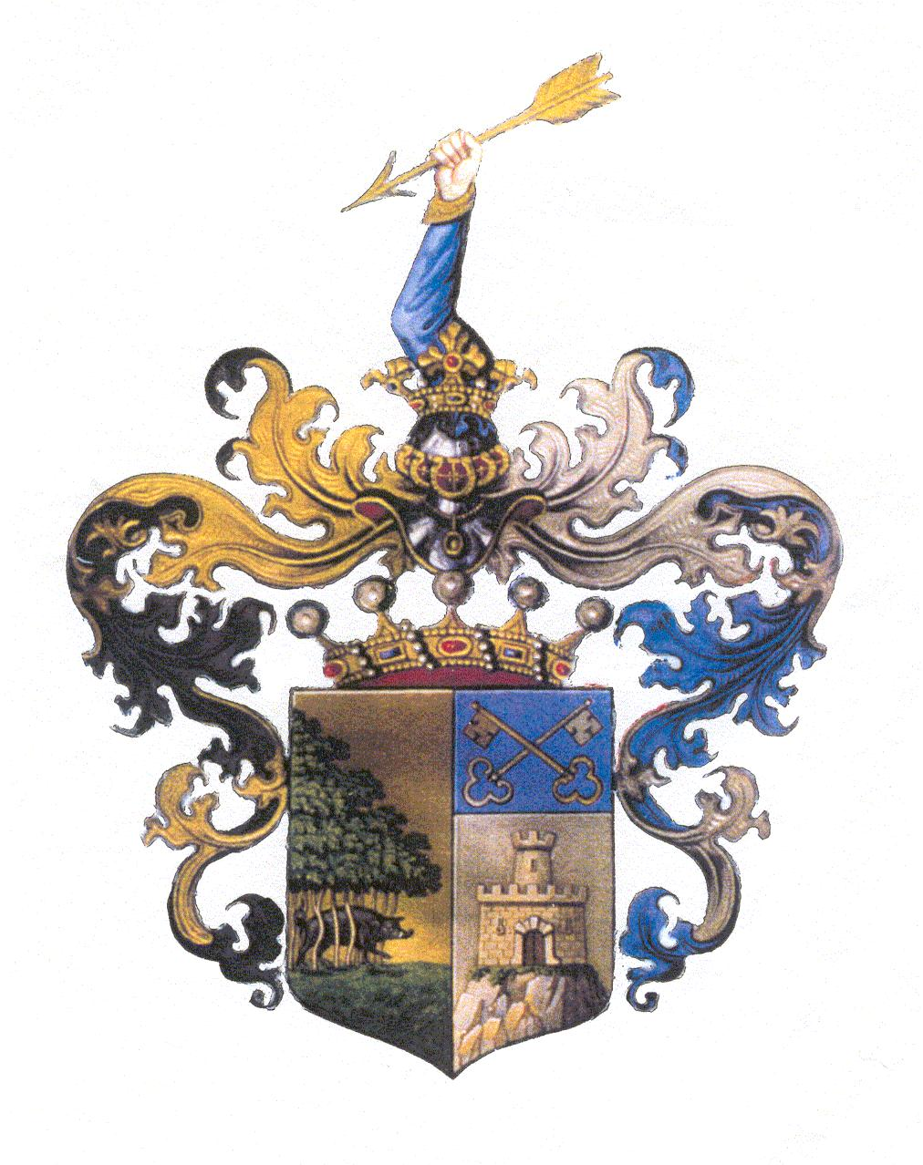 Familienwappen Stalder-Prohaska von Guelfenburg